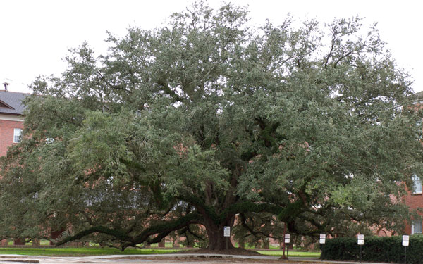 Photo of one of the numerous live oak trees planted at the University of Louisiana at Lafayette.